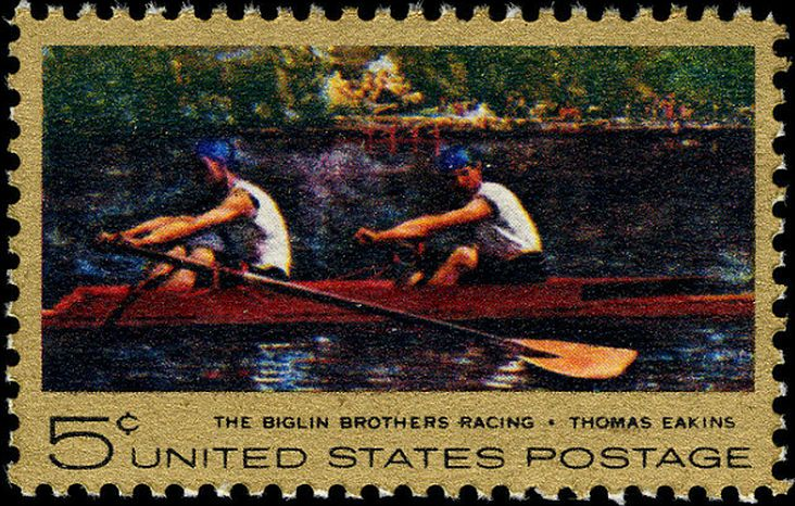 US stamp honoring Thomas Eakins